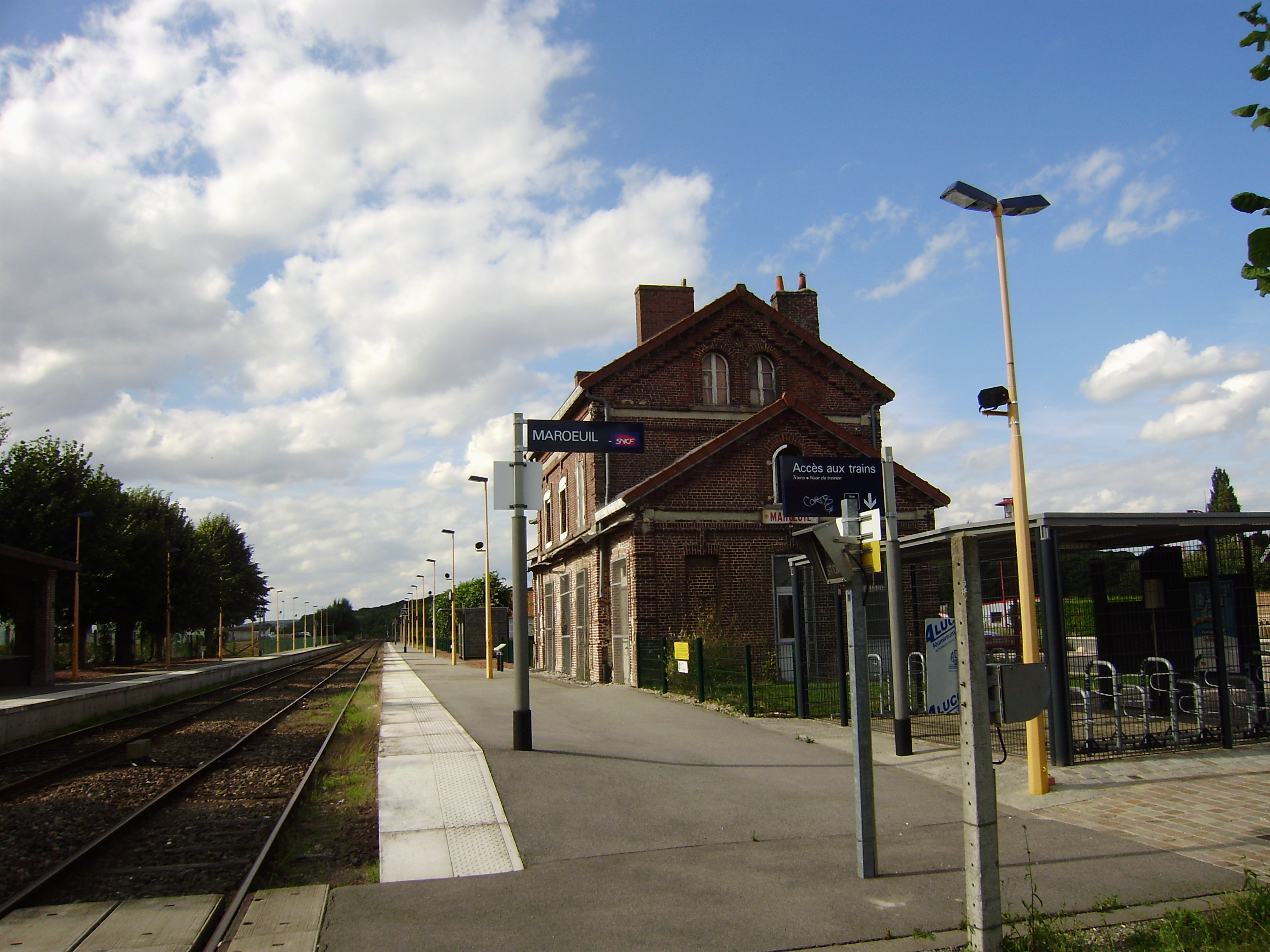 The station of Maroeuil